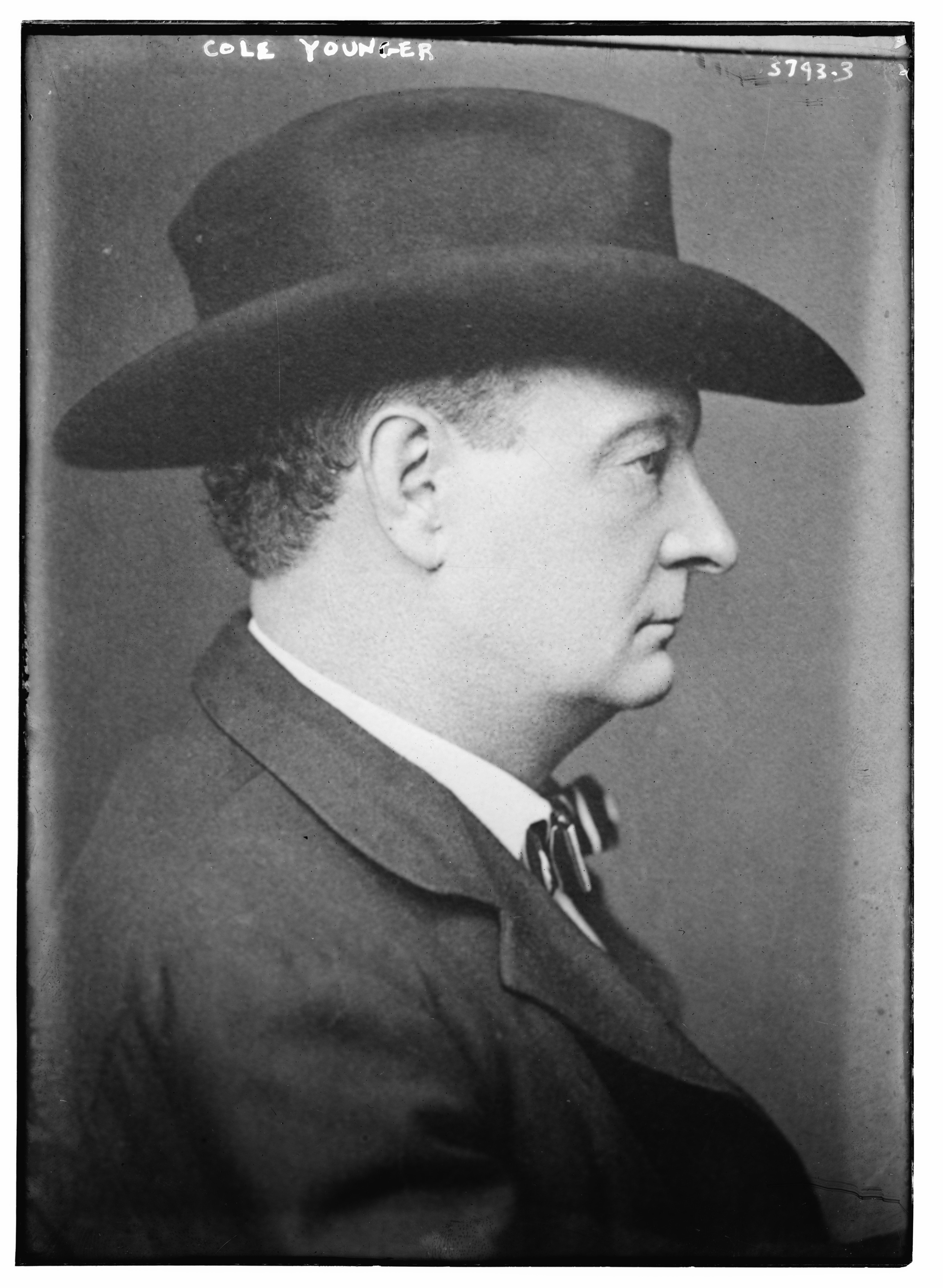 Cole Younger circa 1915